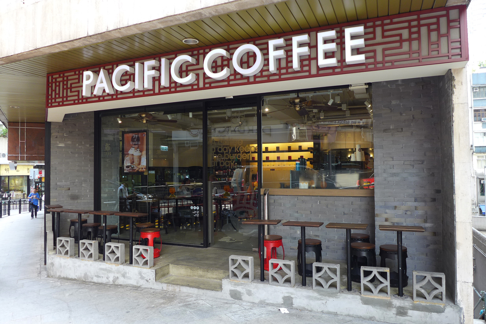 Pacific Coffee in Hollywood Centre (Sheung Wan)